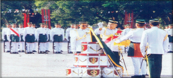 panji